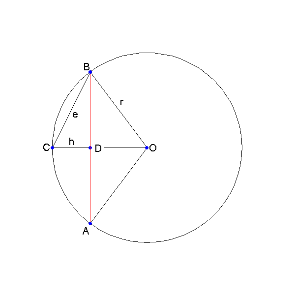 The chord and the height of the arc